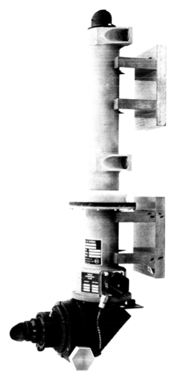 Alinement Optical Telescope used on the Apollo Lunar Module to measure the apparent positions of stars in order to align the inertial measurement unit